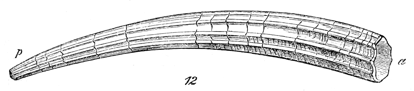 Fig. 12. Dentalium Elephantinum. "This has an opening at the anterior termination a, called the aperture. The opening at the posterior end (p) is named a fissure, or perforation. The ribs running along the sides of the shell are longitudinal, or radiating. And the lines round the circumference are lines of growth, or concentric—each one having in succession, at earlier stages of growth, formed the aperture. They are described as concentric, or transverse."